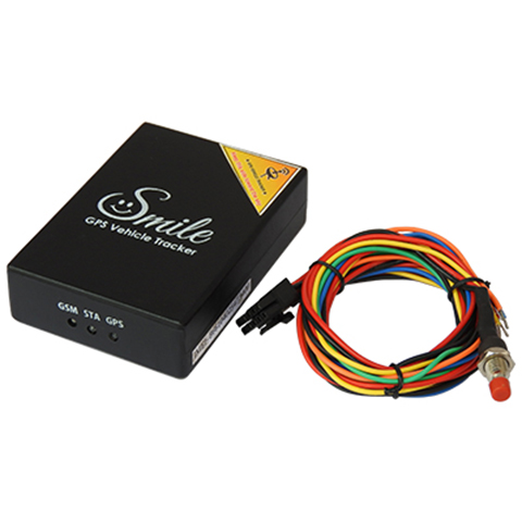 You will be able to track your vehicle real time basis upon installing this Tracker device in your vehicle.